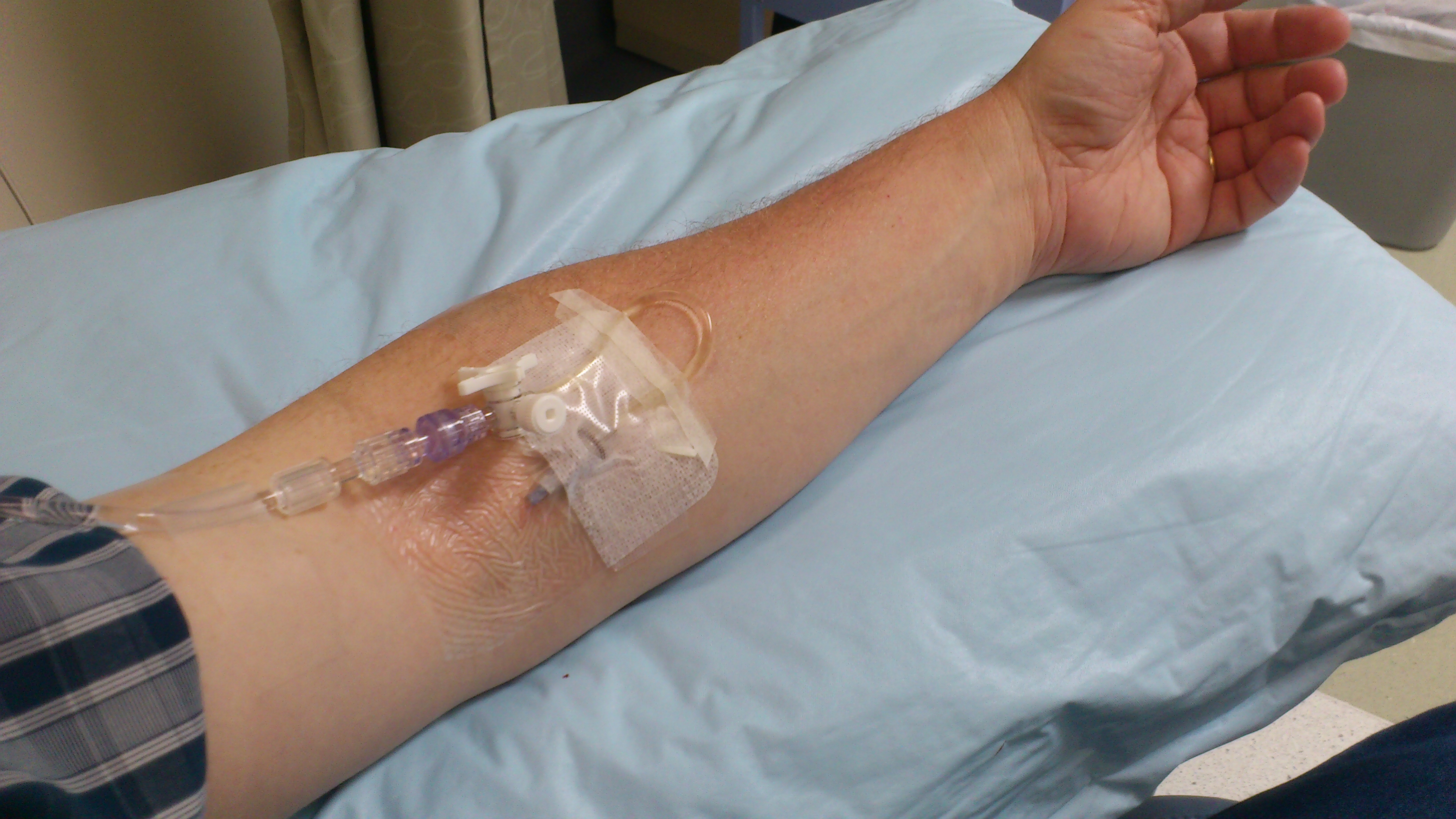 An image of an Intragam infusion (intravenous immunoglobulin) as treatment for Common Variable Immunodeficiency in Australia, 2013